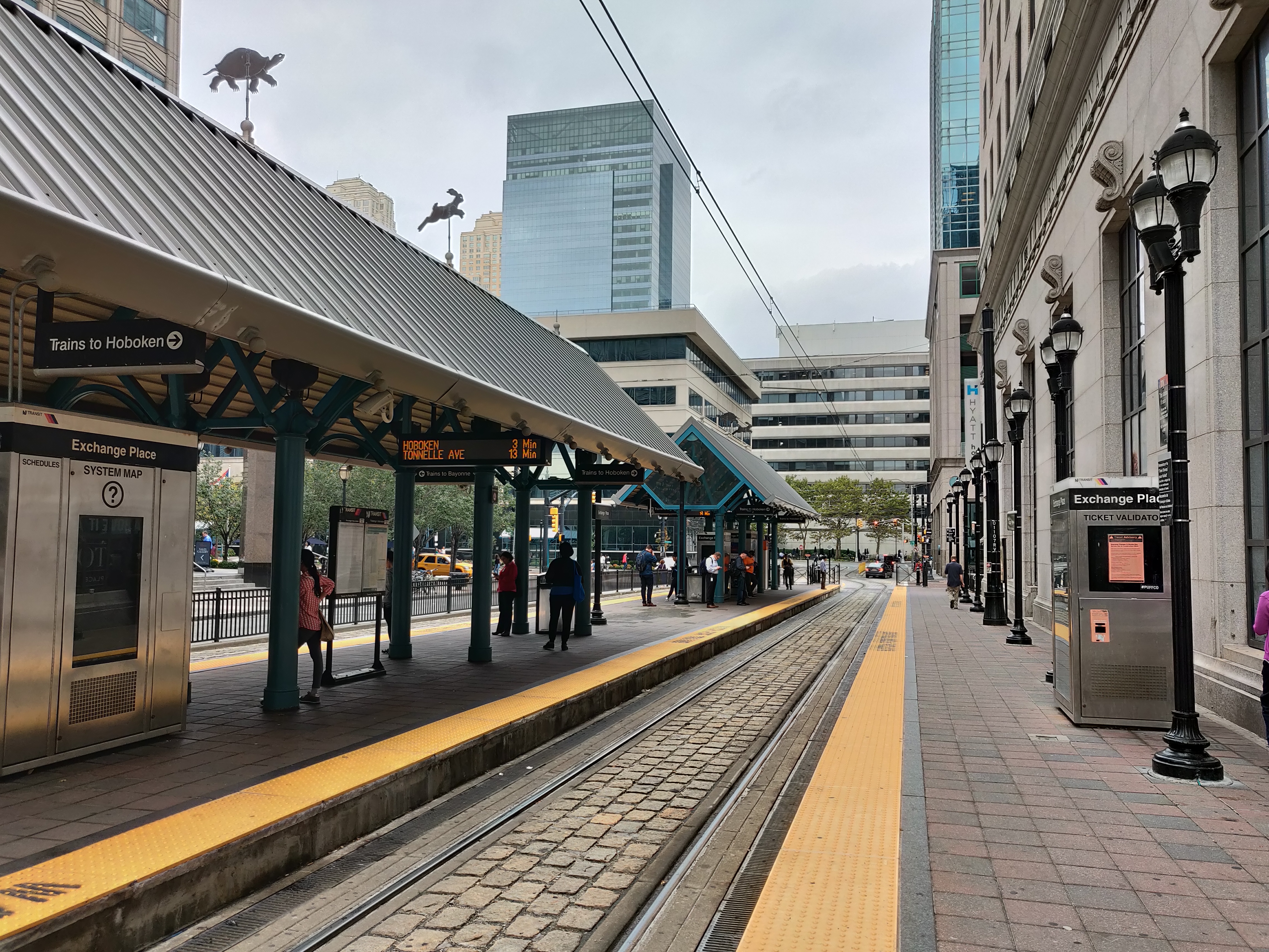 The "Exchange Place" Hudson-Bergen Light Rail Station in the evening in Jersey City, New Jersey, USA. The photographer is facing north on the northbound platform.